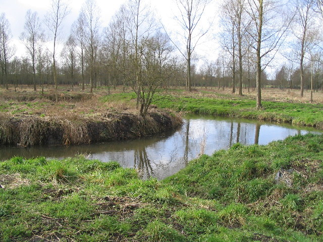 River Blackwater Bend in the river near Horseshoe Hole